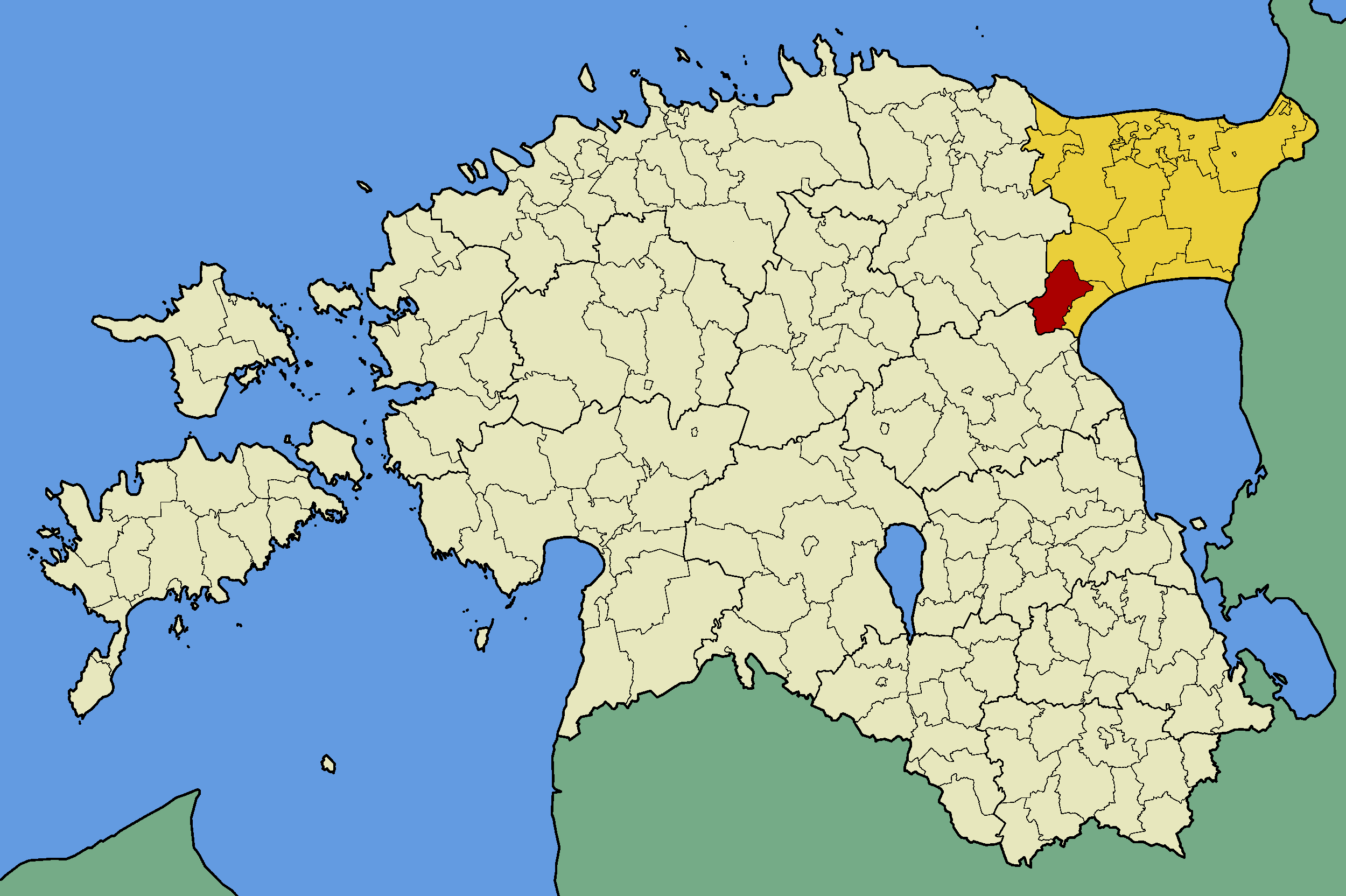 Map of Estonia with borders of municipalities (parishes). Ida-Viru county and Avinurme municipality emphasized.